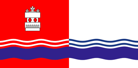 Flag of Criuleni district